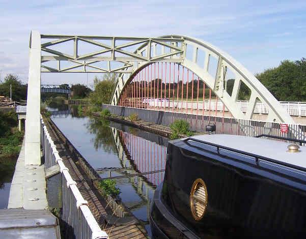 Cast Iron Aqueduct at Stanley Ferry, Yorkshire, England on the Aire and Calder Navigation dating from 1839